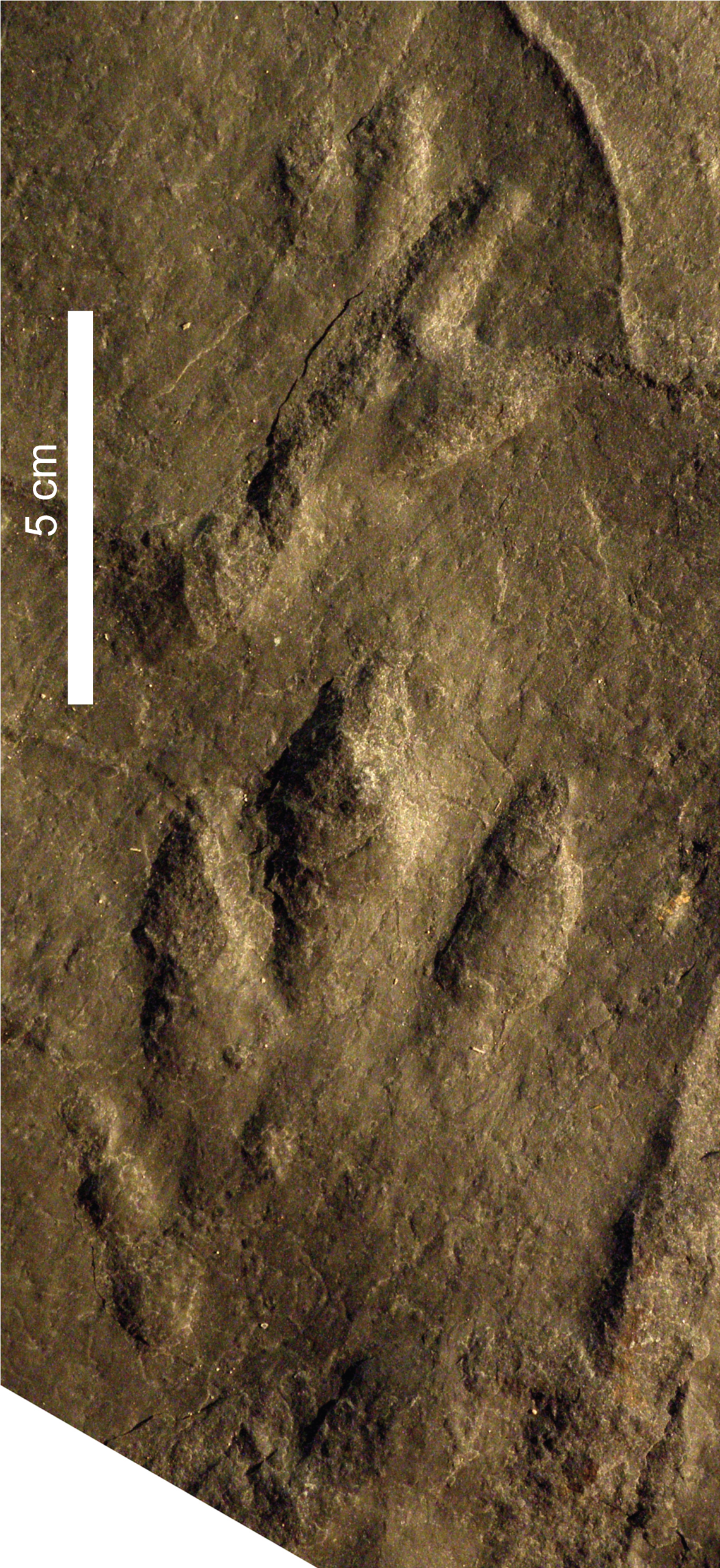 Natural cast (convex hyporelief) of a set of left manus and pes of Chirotherium barthii (“Chirosaurus ibericus”) from the Anisian (Middle Triassic) of the Moncayo massif (Iberian Range, Zaragoza province, Spain). The fifth digit of the pes and the first digit of the manus are not well developed in these examples.